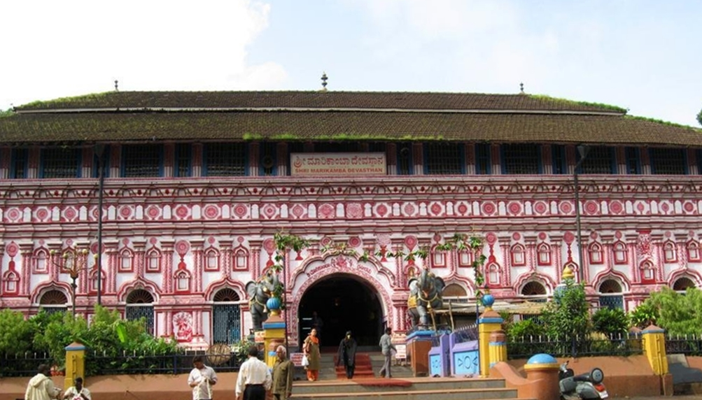 Marikamba Temple